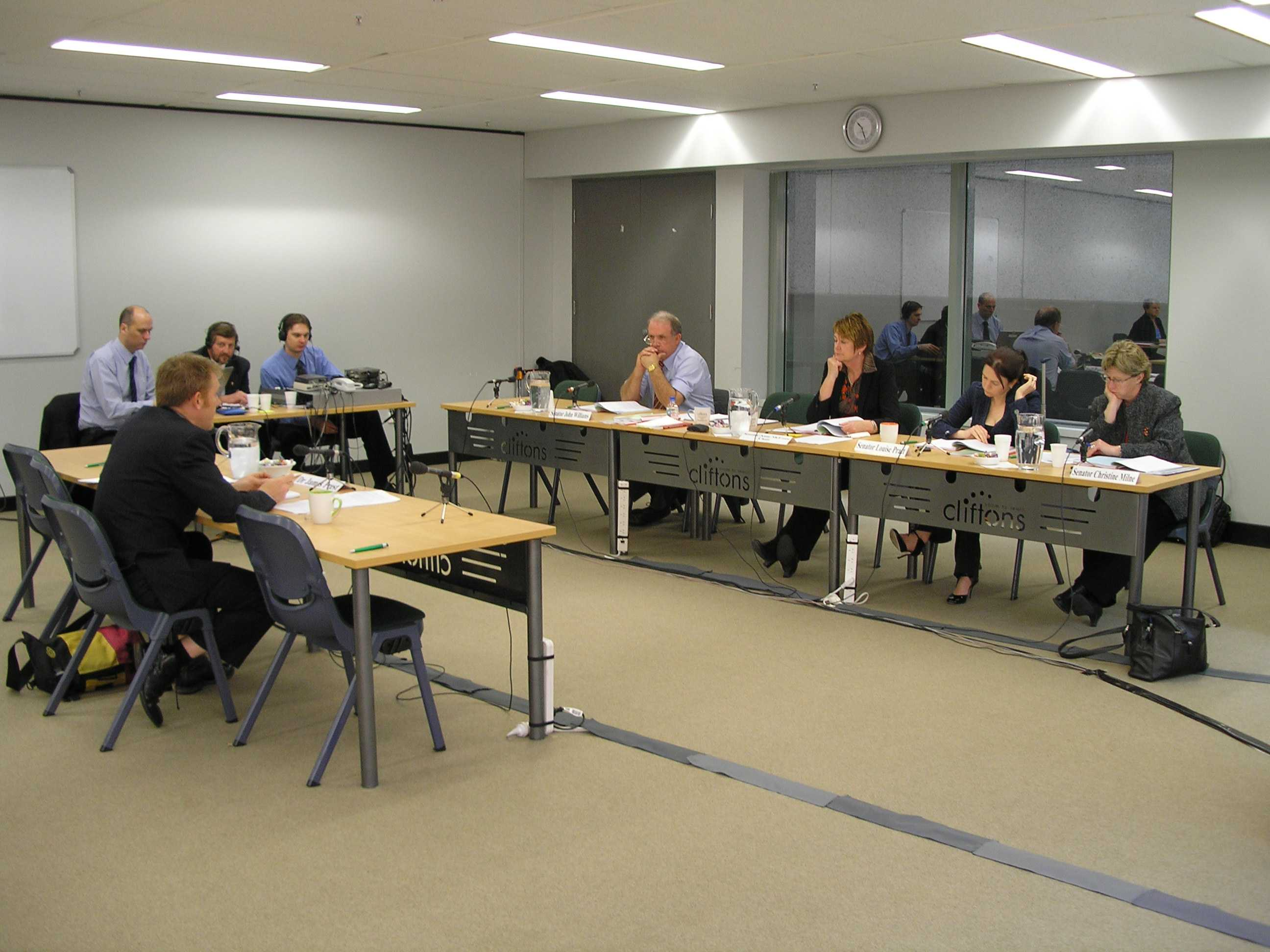 public hearing of an Australian Sente committee, showing Senators, witness, transcription and broadcasting staff